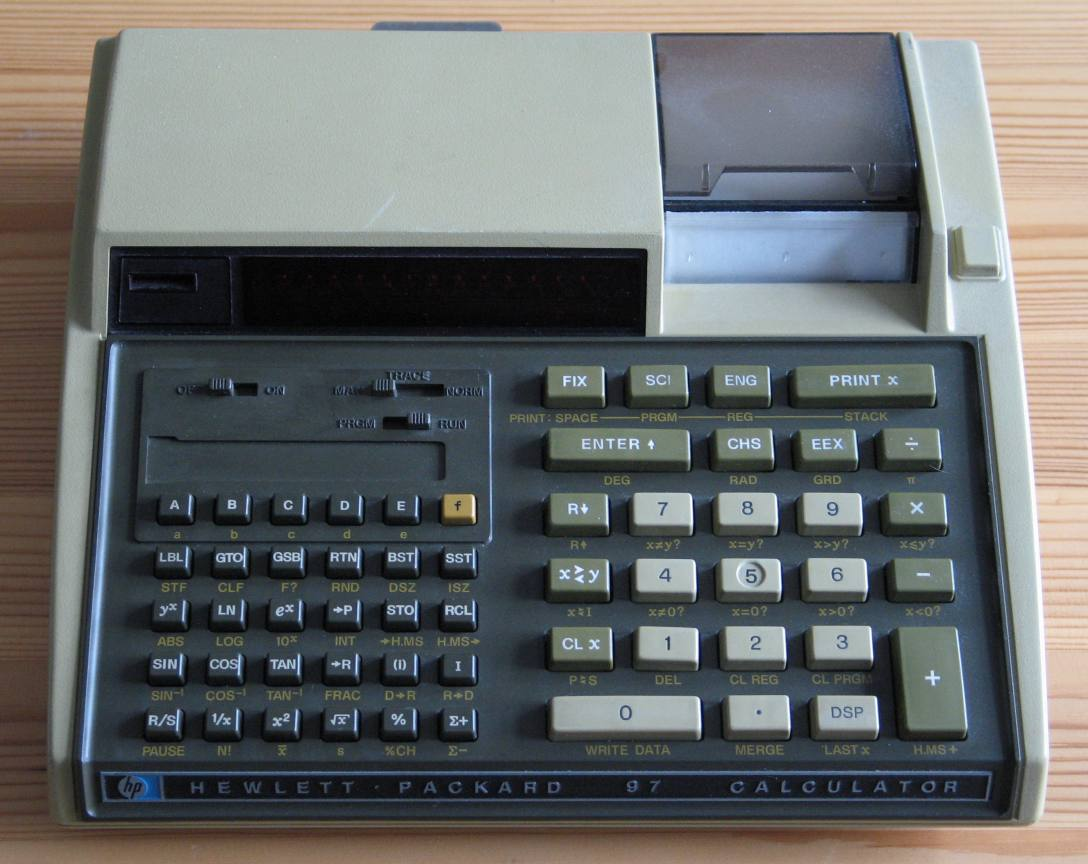 front view of a hp-97 showing the end of the anti-theft-attachment at the back